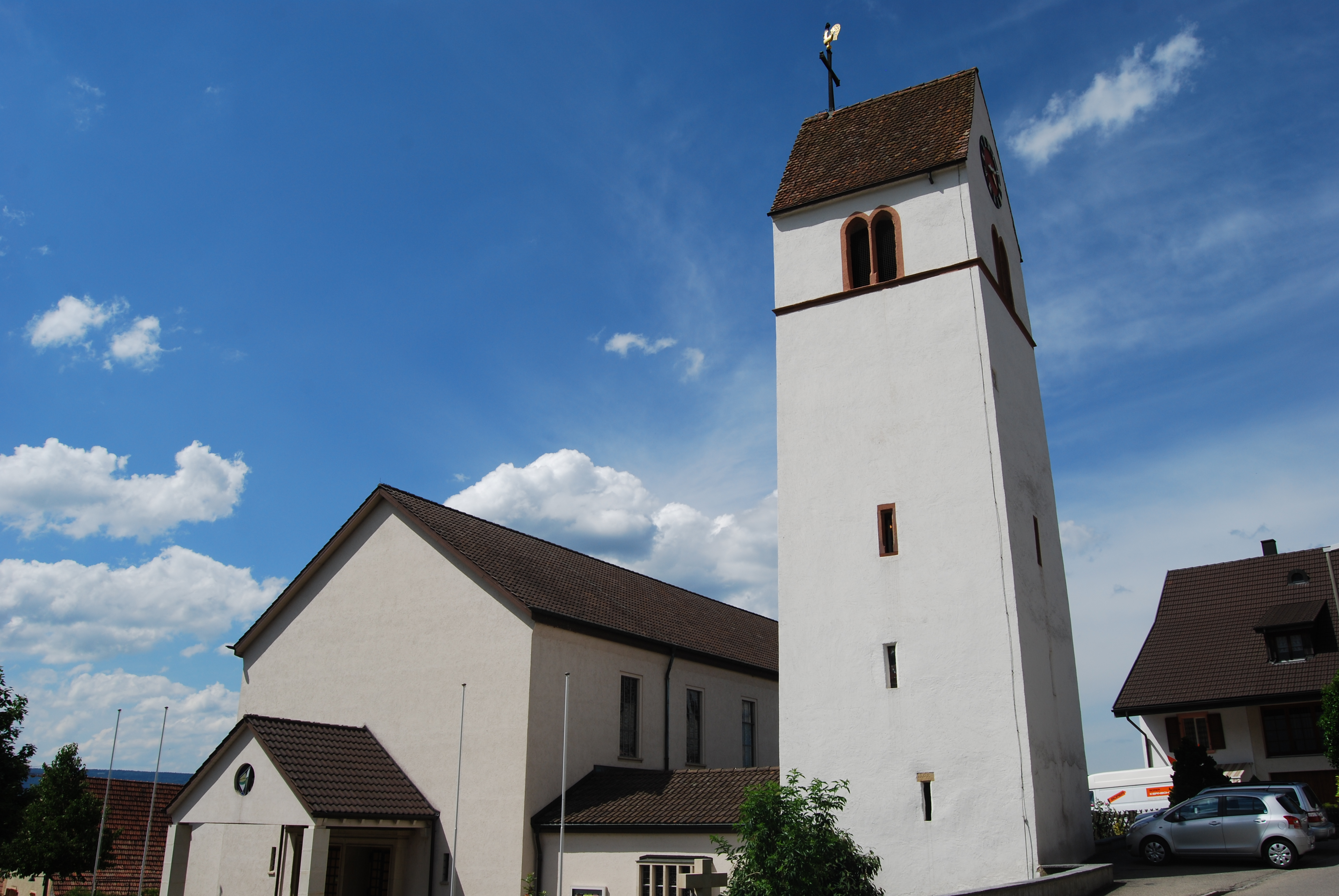 Catholic Church of Büsserach, canton of Solothurn, Switzerland